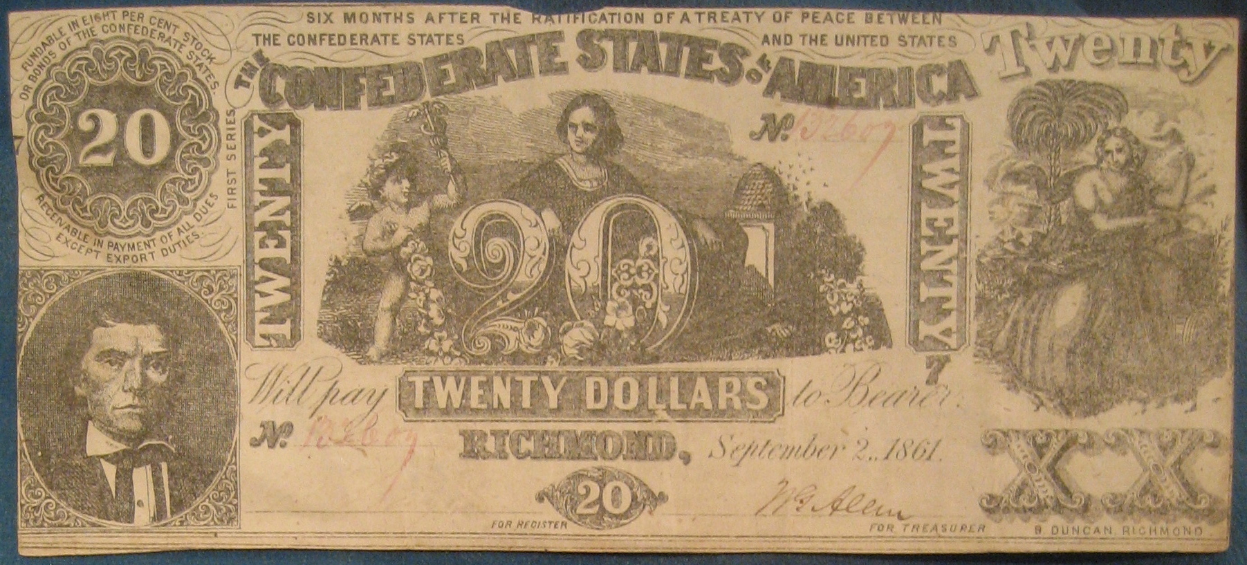 1861 Confederate $20 bill, on display at Wentworth Museum, Pensacola, Florida.